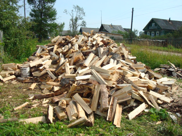 DrovaDSC00114